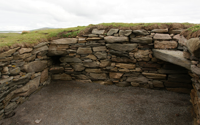 Ness of Burgi, Mainland (Shetland), Scotland - in the south chamber (from the east)